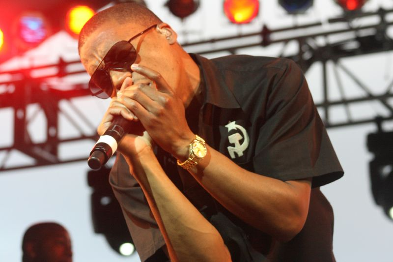 Lupe Fiasco performing at the Mile High Music Festival in Commerce City, Colorado, July 19, 2008